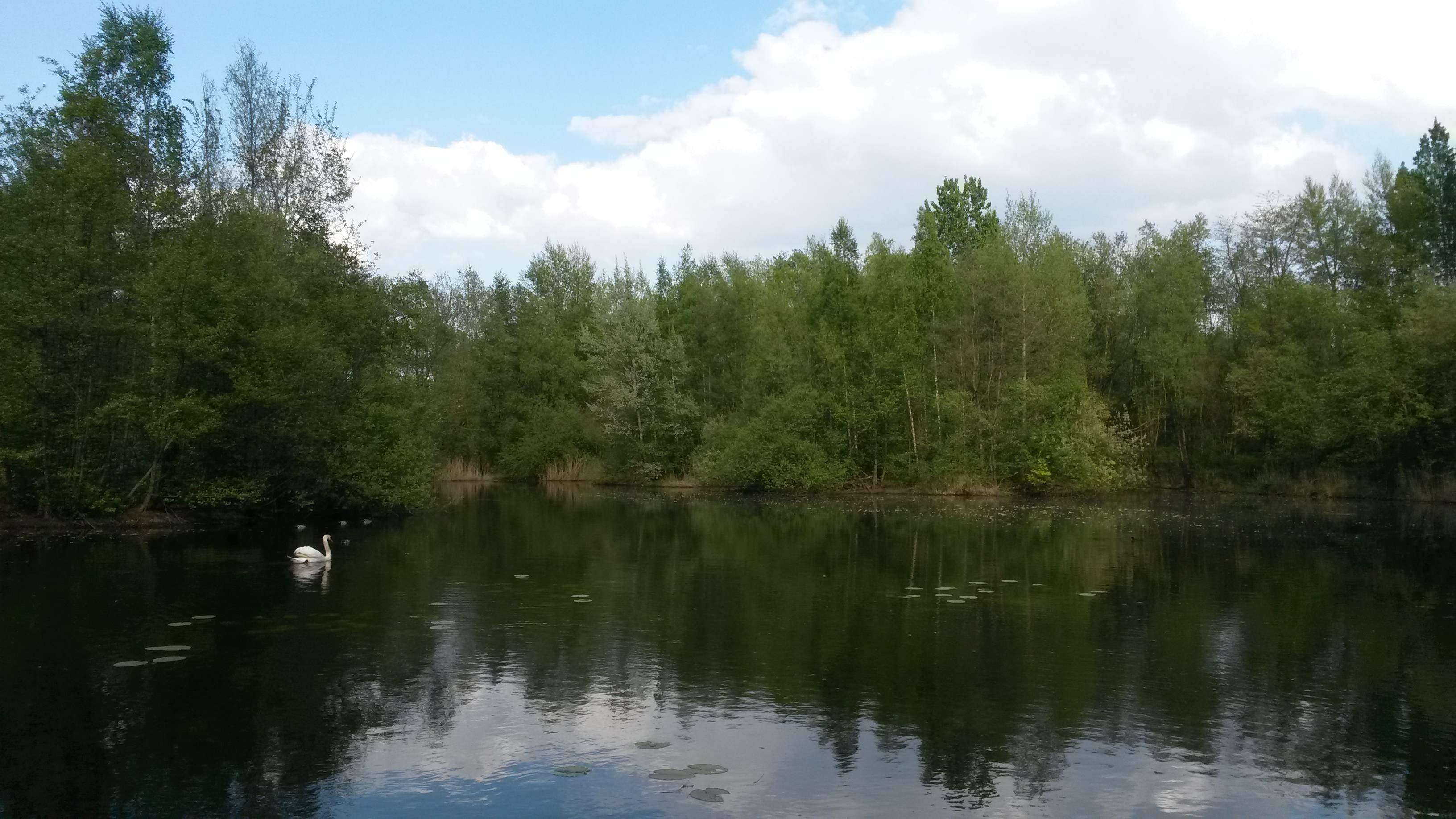 The biotope in Alstaden (Oberhausen/Northrhine-Westphalia, Germany)